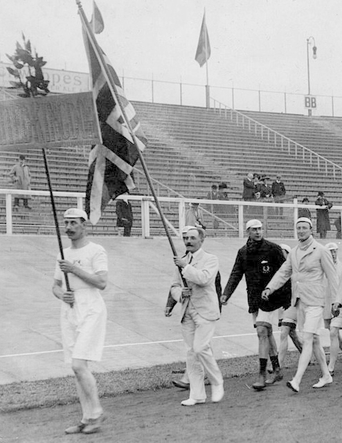 The British Olympic Team in procession at the opening ceremony of the 1908 London Olympics.